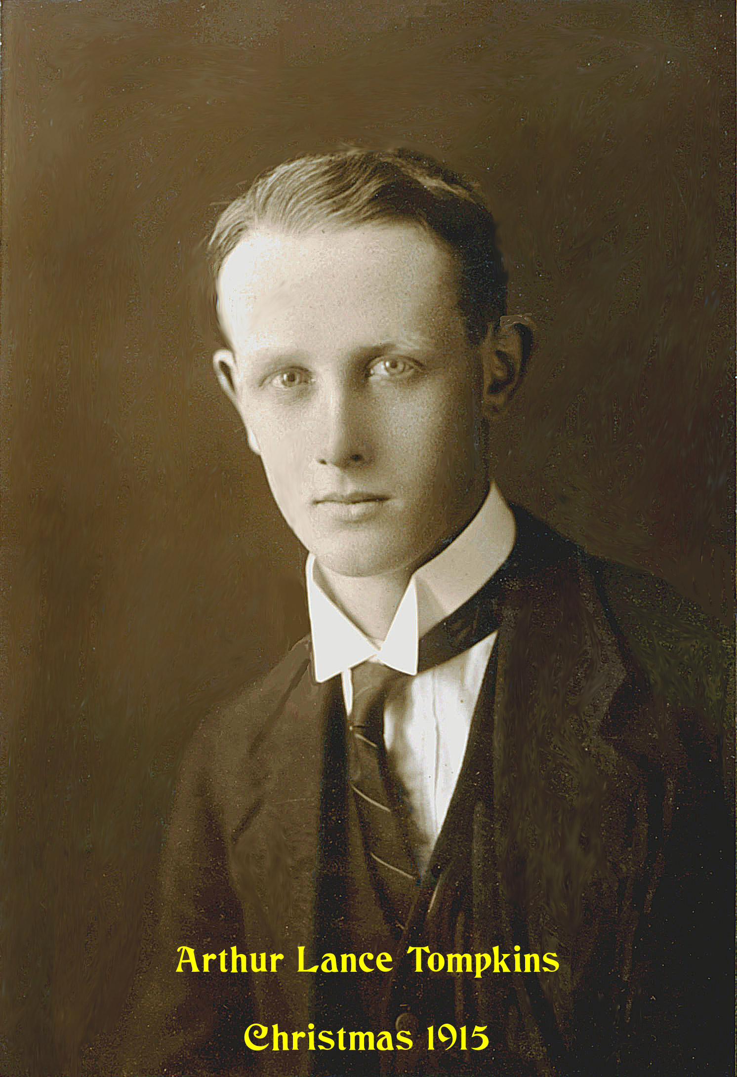 Lance Tompkins in 1915